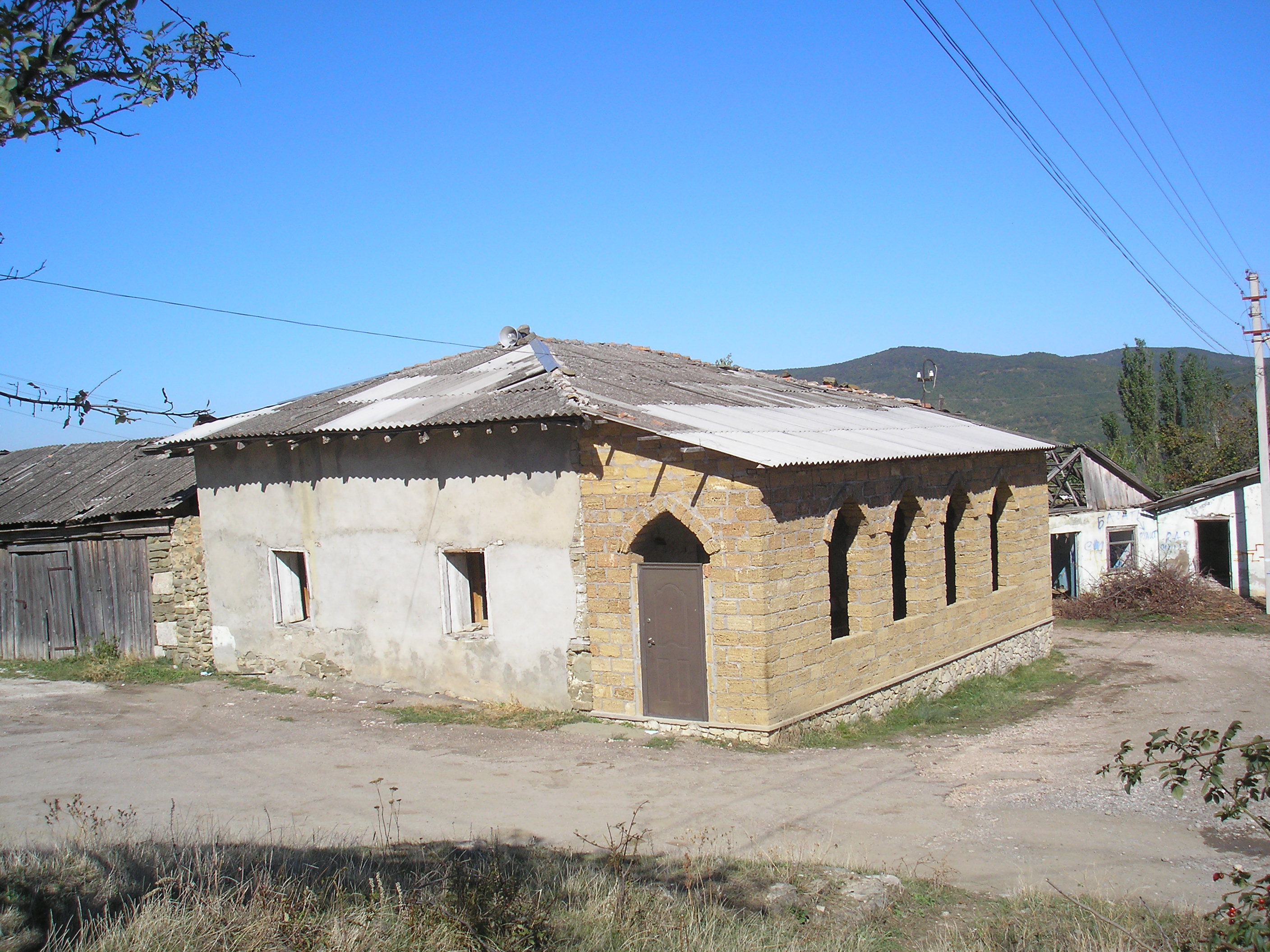 Village Bogatyr, Bakhchisaray Raion, Crimea. Mosque.